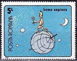 According to the Romanian Law on Copyright and Neighboring Rights Law no. 8/1996 of March 14, 1996 with further amendments Chapter 3 Article 9 the following documents shall not benefit from the legal protection accorded to copyright: (a) the ideas, theories, concepts, scientific discoveries, procedures, working methods, or mathematical concepts as such and inventions, contained in a work, whatever the manner of the adoption, writing, explanation or expression thereof; (b) official texts of a political, legislative, administrative or judicial nature, and official translations thereof; (c) official symbols of the State, public authorities and organizations, such as armorial bearings, seals, flags, emblems, shields, badges and medals; (d) means of payment; (e) news and press information; (f) simple facts and data. Also, according to Chapter 10 Article 85 Paragraph 2, The photographs of letters, deeds, documents of any kind, technical drawings and other similar papers shall not benefit from the legal protection accorded to copyright. Therefore this image is assumed to be in the public domain worldwide, although some of the above categories may be subject to usage restrictions within Romania.